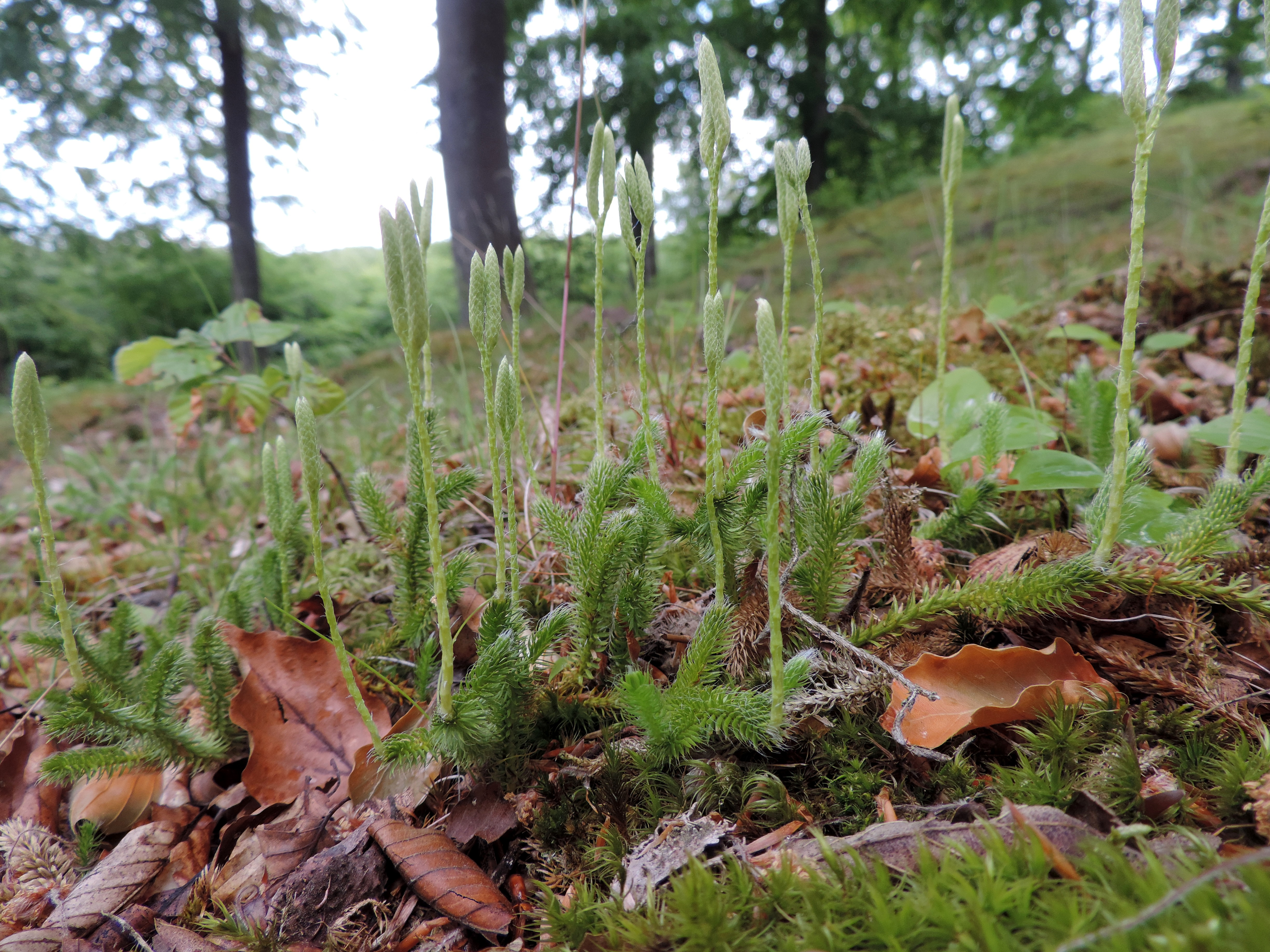 Lycopodium clavatum in vicinity of Gniewino, N Poland